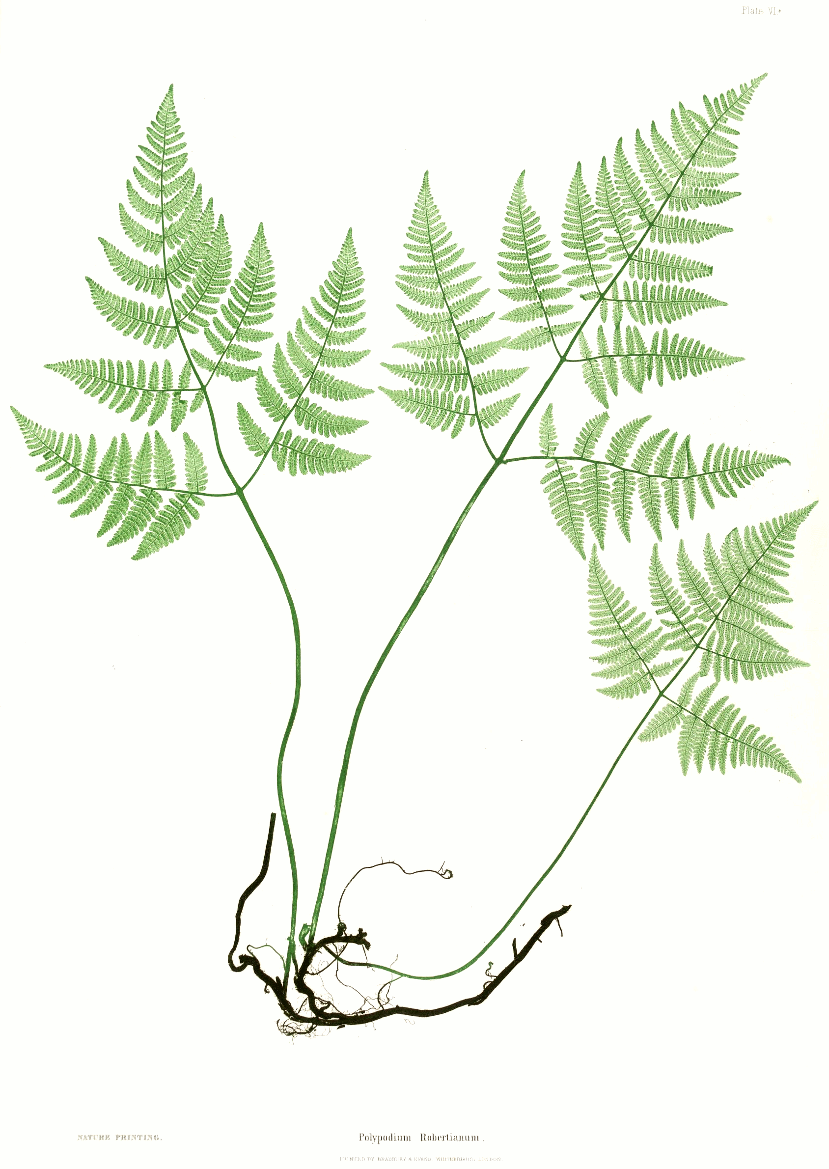 Plate from book